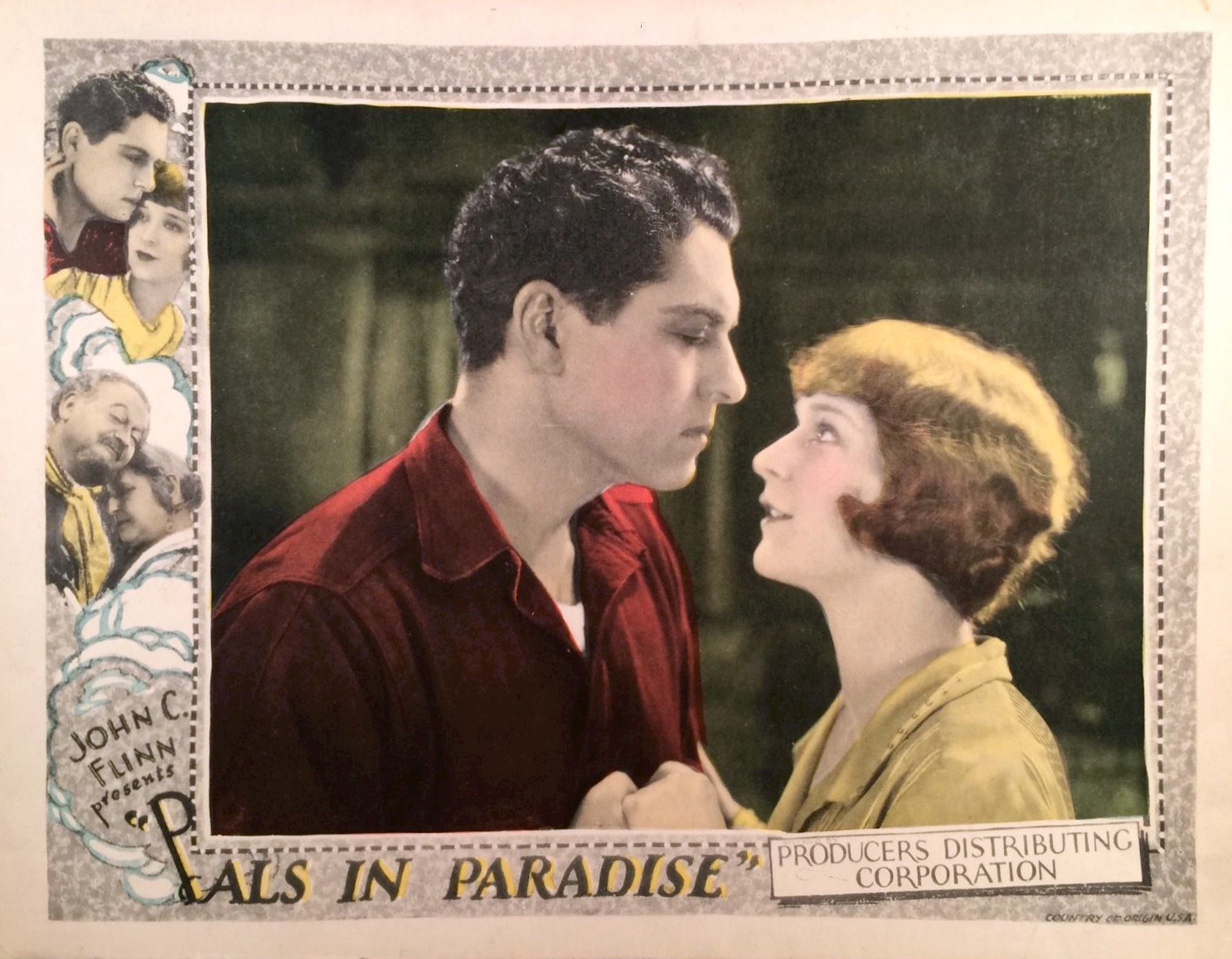 Lobby card for the American film Pals in Paradise (1926). There are no copyright marks on the card. At lower right is Country of origin USA.